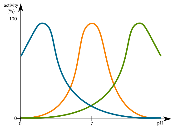 graph of enzyme activity in against pH. green- high pH enzyme; blue- low pH enzyme; orange- neutral pH enzyme.